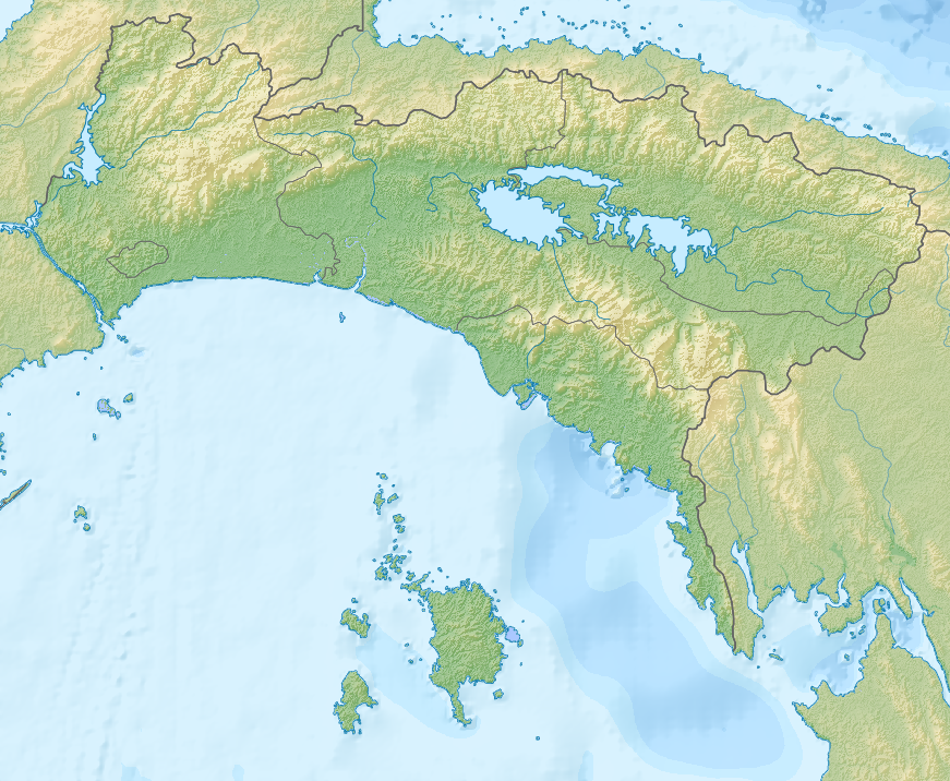 Relief map of Panama province, Panama.